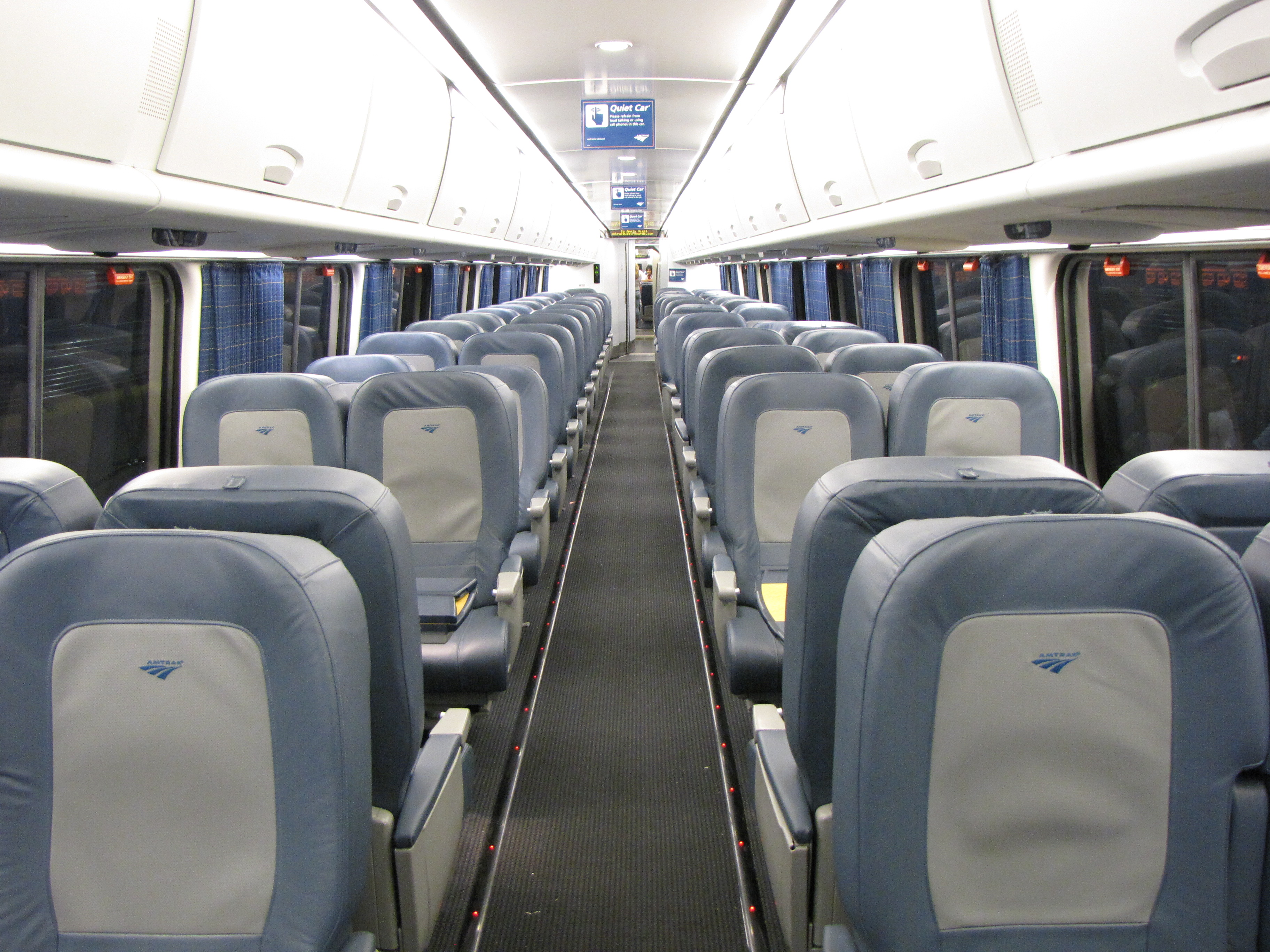 Acela Express Quiet Car. Note the "Quiet Car" signage along the ceiling. Cell phone use is not permitted on this car, and conversations must be kept at low volume.